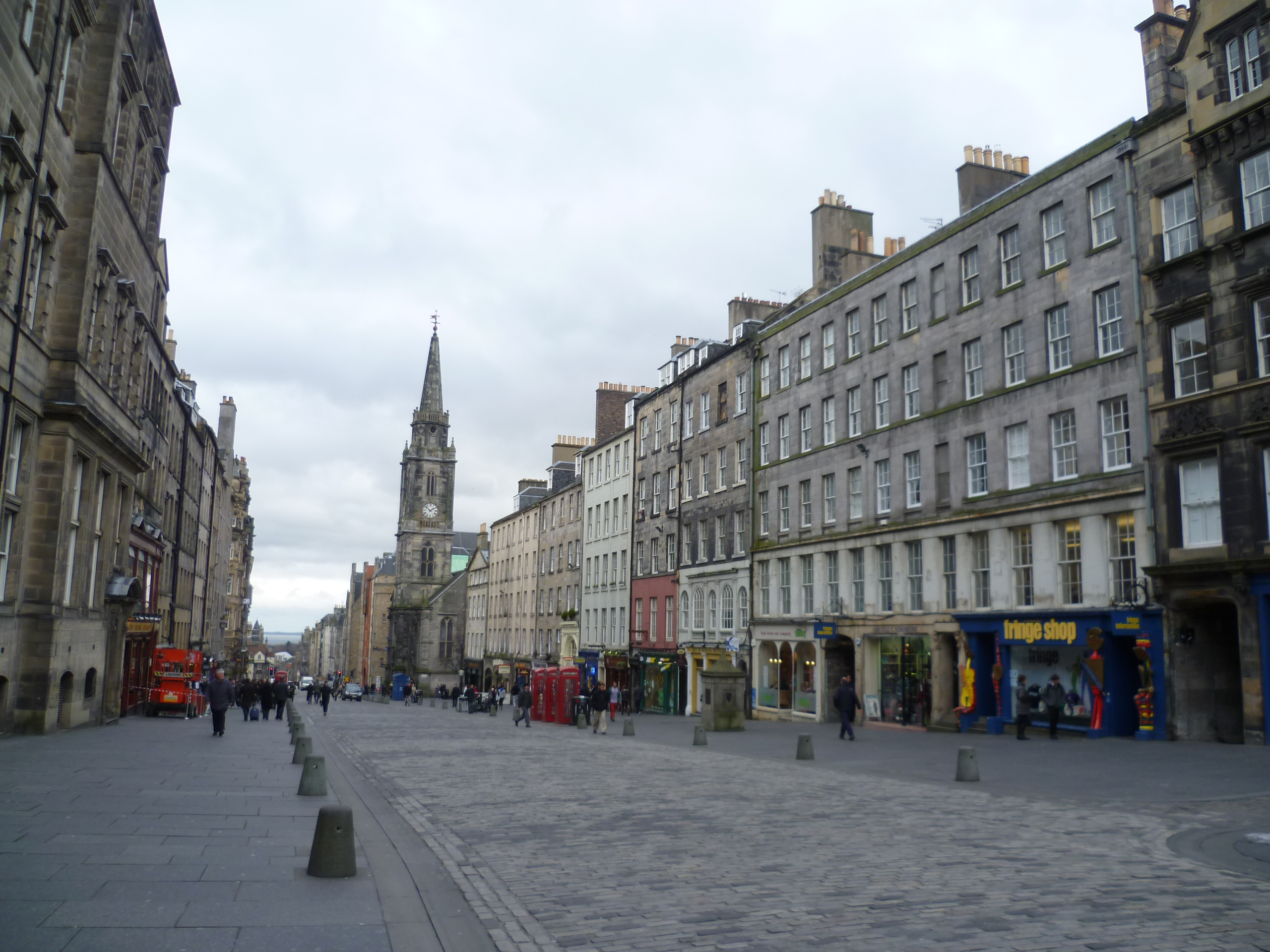 The High Street, Edinburgh in January 2012.